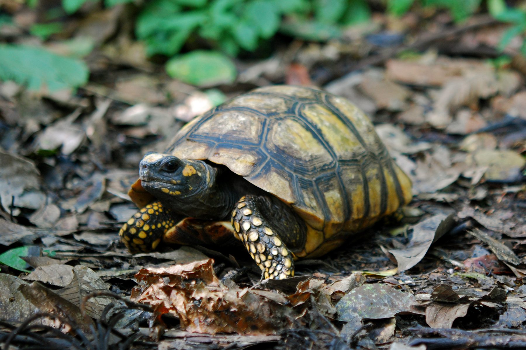 A Yellow-footed tortoise in Yasuní, Ecuador.